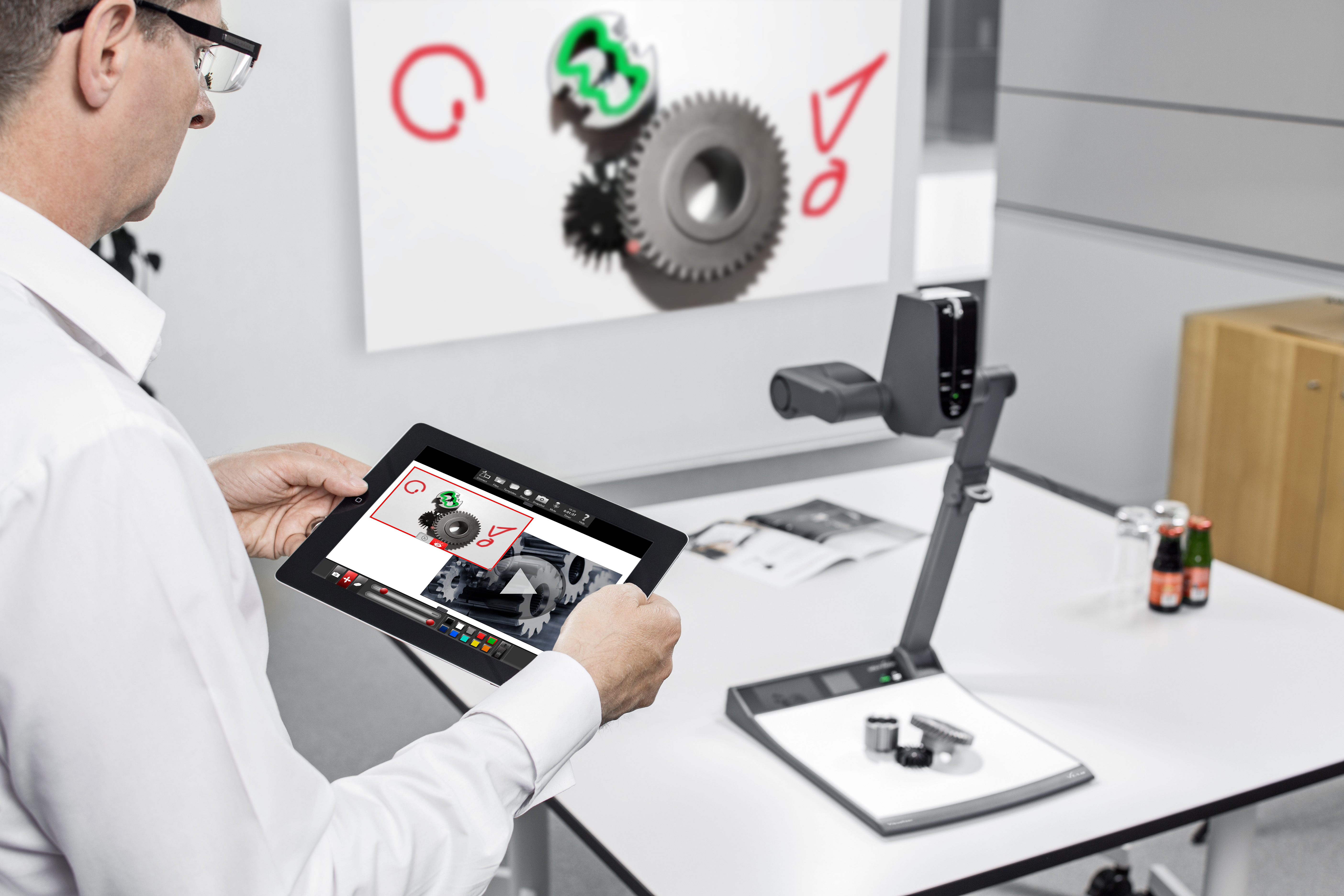 vSolution Connect for iPad in use with a WolfVision VZ-9.4 Series Visualizer